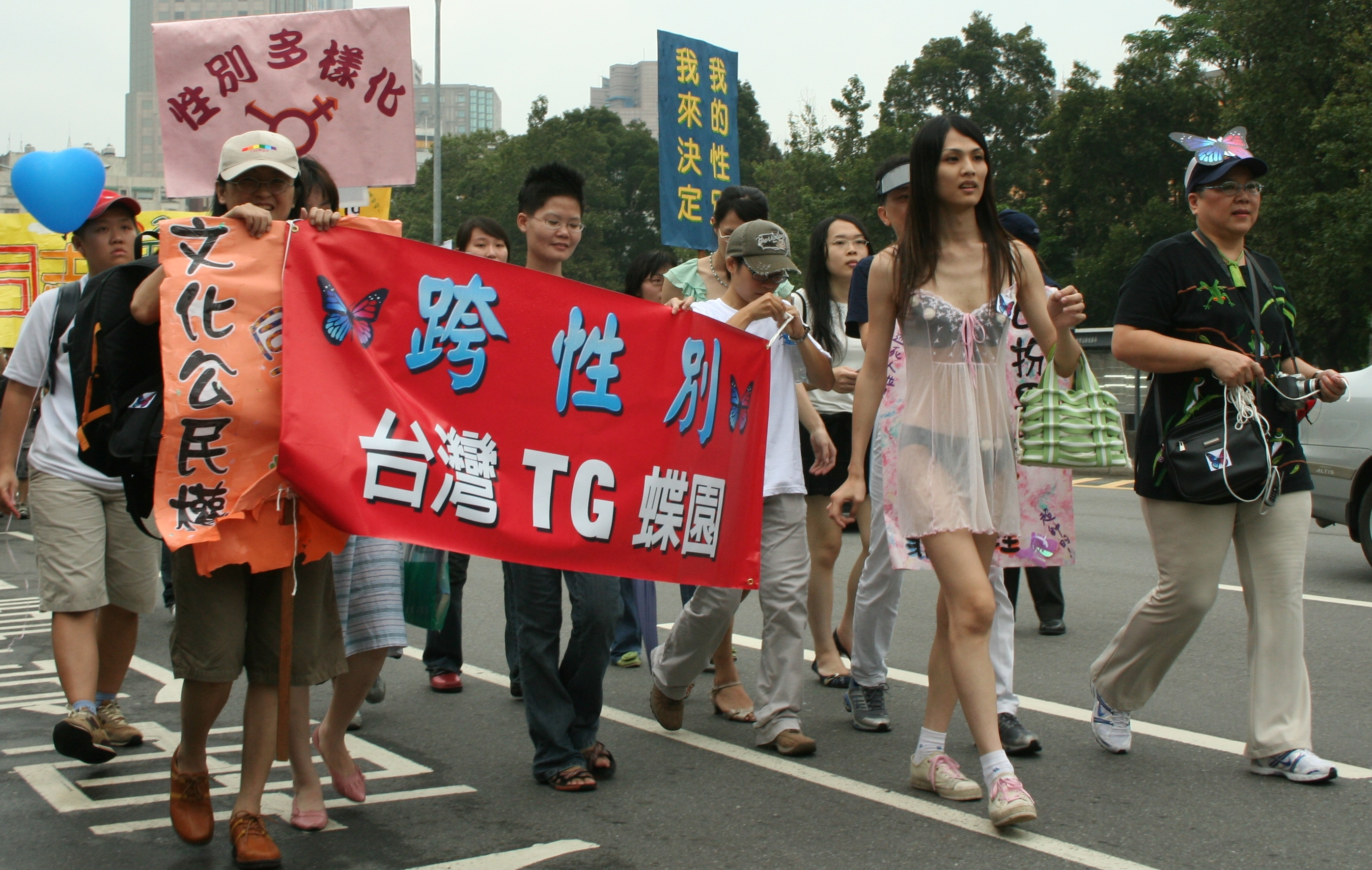 台灣TG蝶園/Taiwan TG Butterfly Garden group at 台灣同志遊行/Taiwan Pride, 2006. At right is Dr. 何春蕤/Josephine Ho.